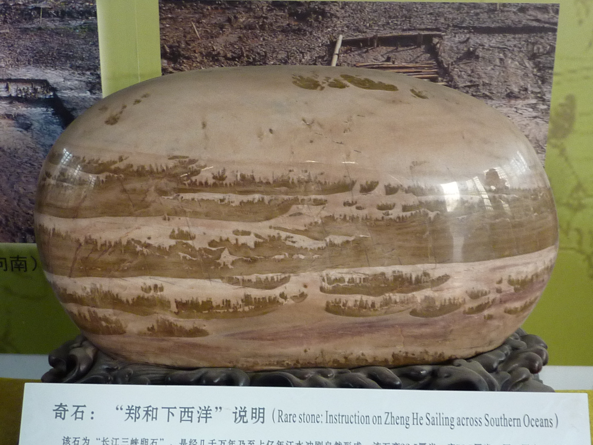 A rare natural stone, kept at the museum of the Treasure Boat Shipyard, with a natural pattern that reminds one of a huge fleet sailing down a river. The stone has come from the Three Gorges area of the Yangtze RIver.